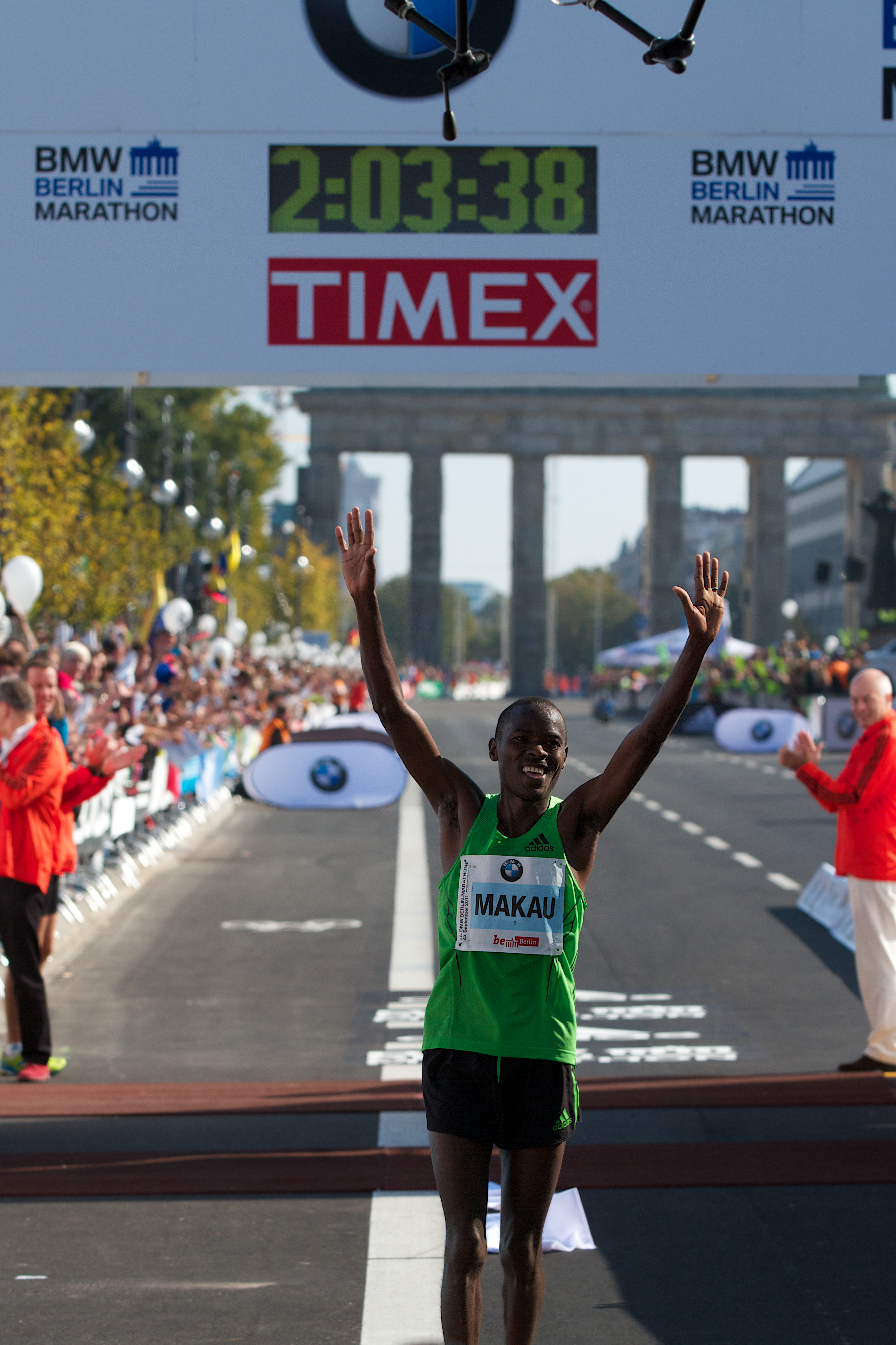 Patrick Makau breaking the World Record at the Berlin Marathon 2011